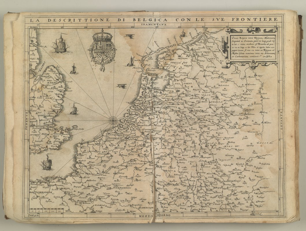 Map of the Netherlands - copper plate by Cornelis de Hooghe for Luigi Guicciardini's "Description of the Low Countries". Signed lower left "C.D. Hooghe fec.".